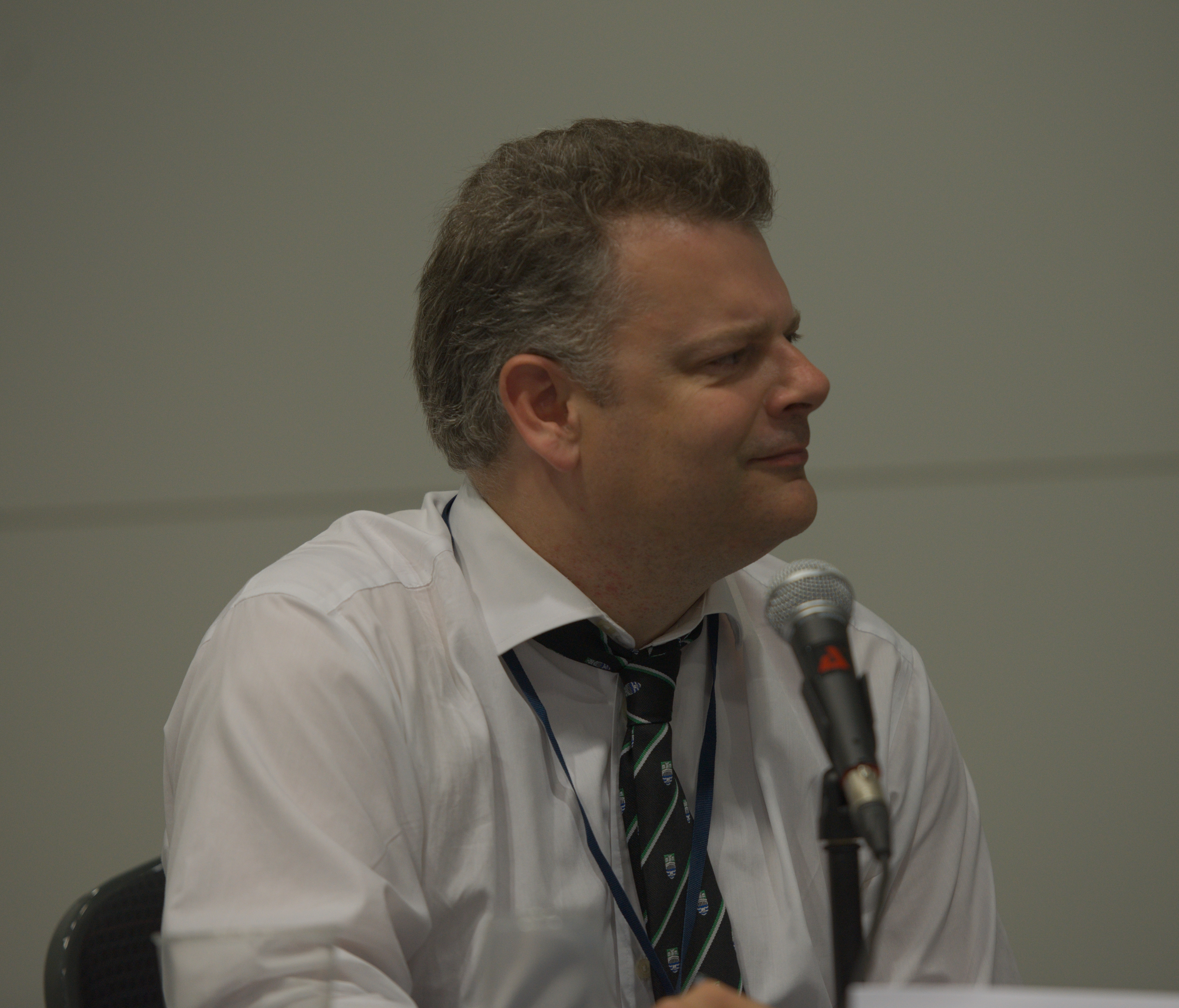 Jonathan Clements interviewing Guest of Honour John Clute at Loncon, Worldcon 2014.